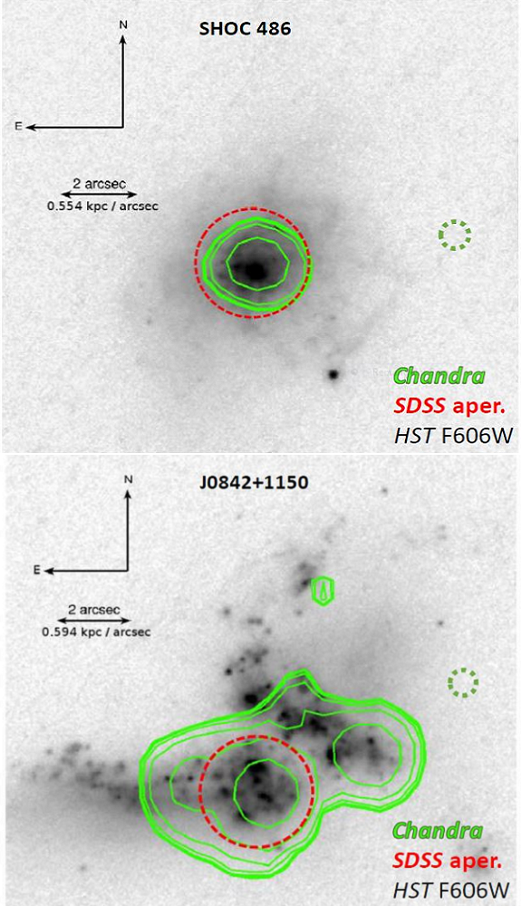 A combination of two pictures of Green Pea analogs which were observed with NASA space telescopes HST and Chandra. The pictures are from a presentation to the AAS by Matt Brorby in January 2017. The author has given permission by email to use this image. The image for Wikimedia was made by Richard Nowell June 2017.